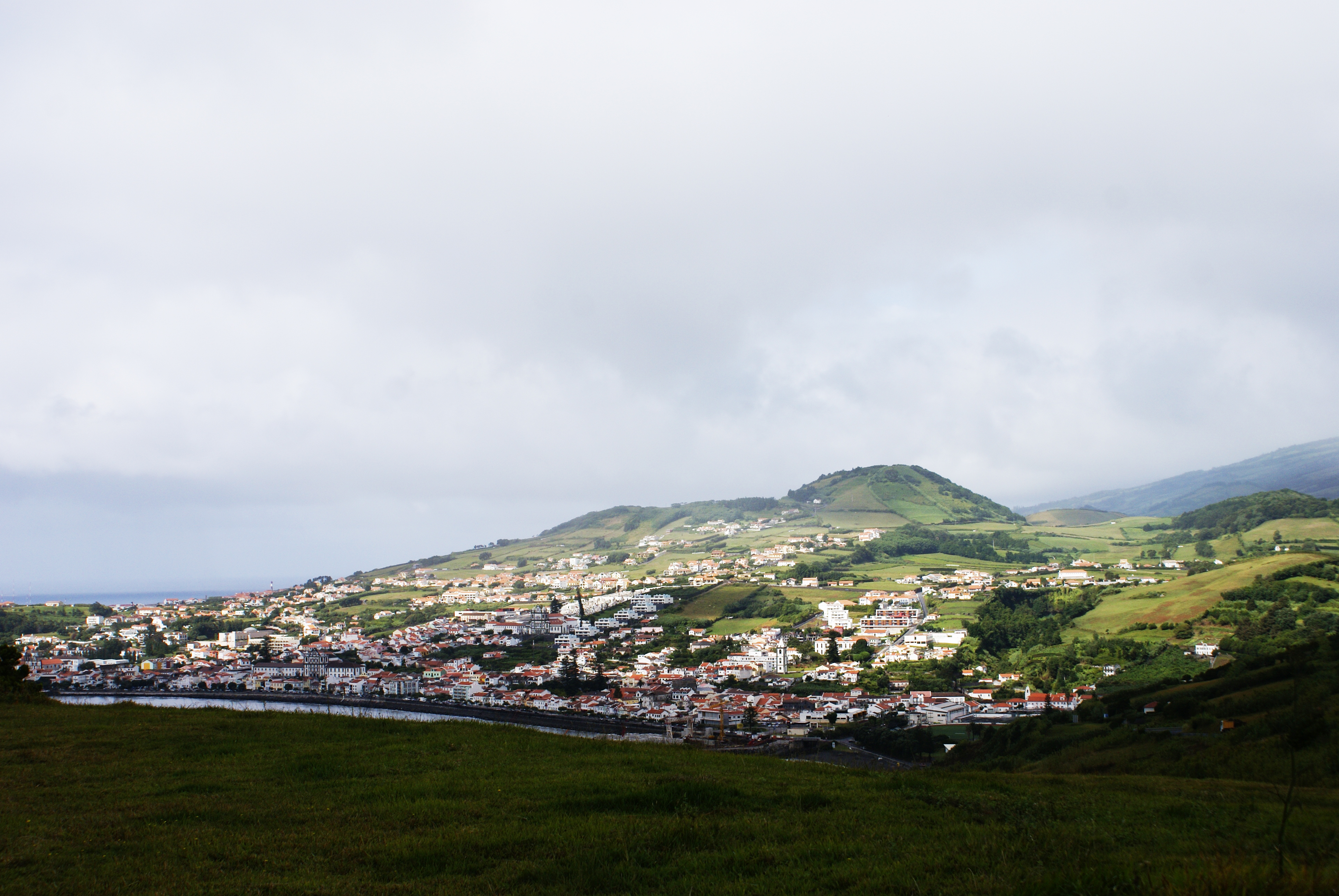 Vista parcial da cidade da Horta vista do Monte da Espalamaca, concelho da Horta, ilha do Faial, Açores, Portugal